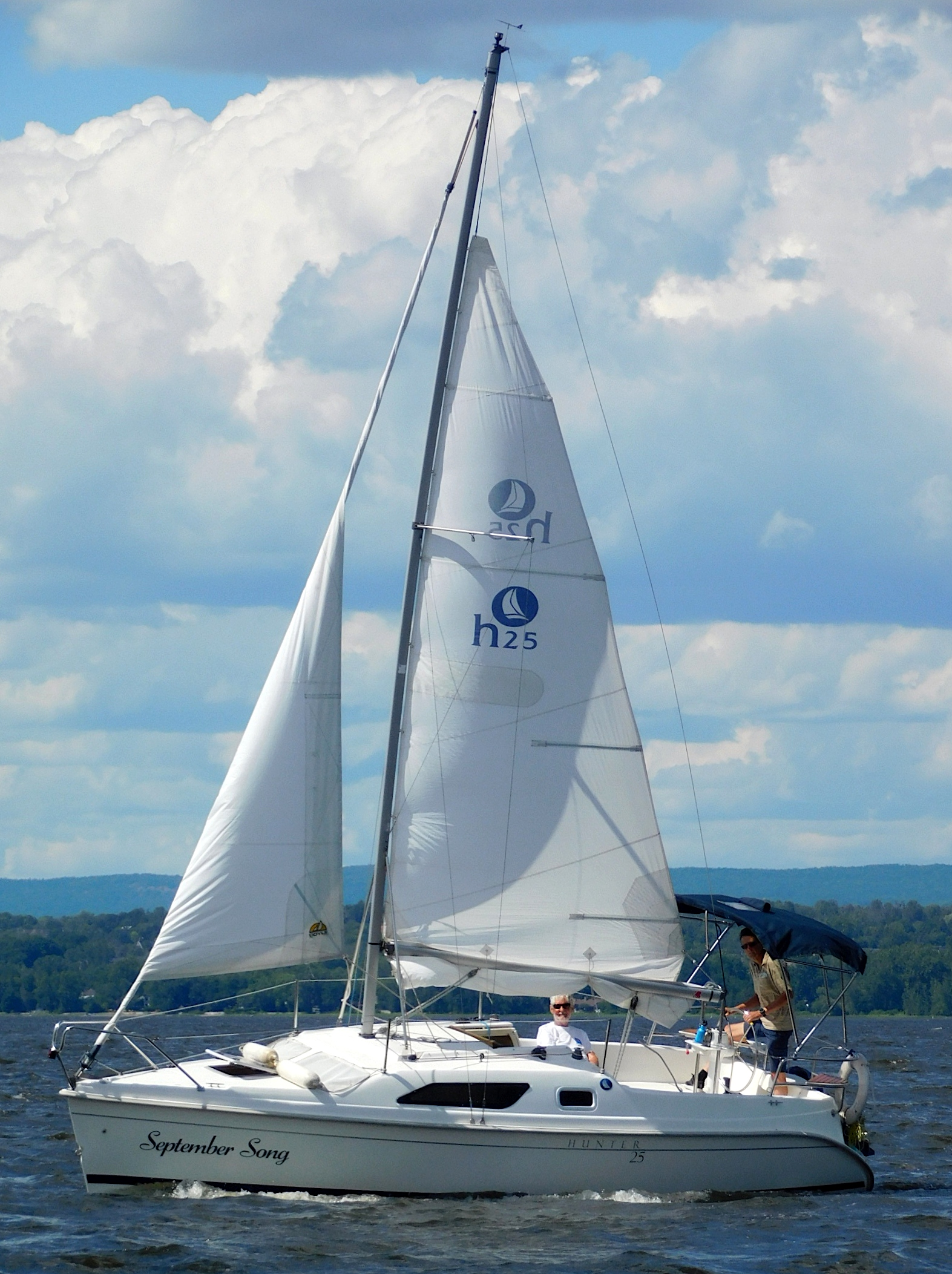 A Hunter 25 sailboat named September Song.